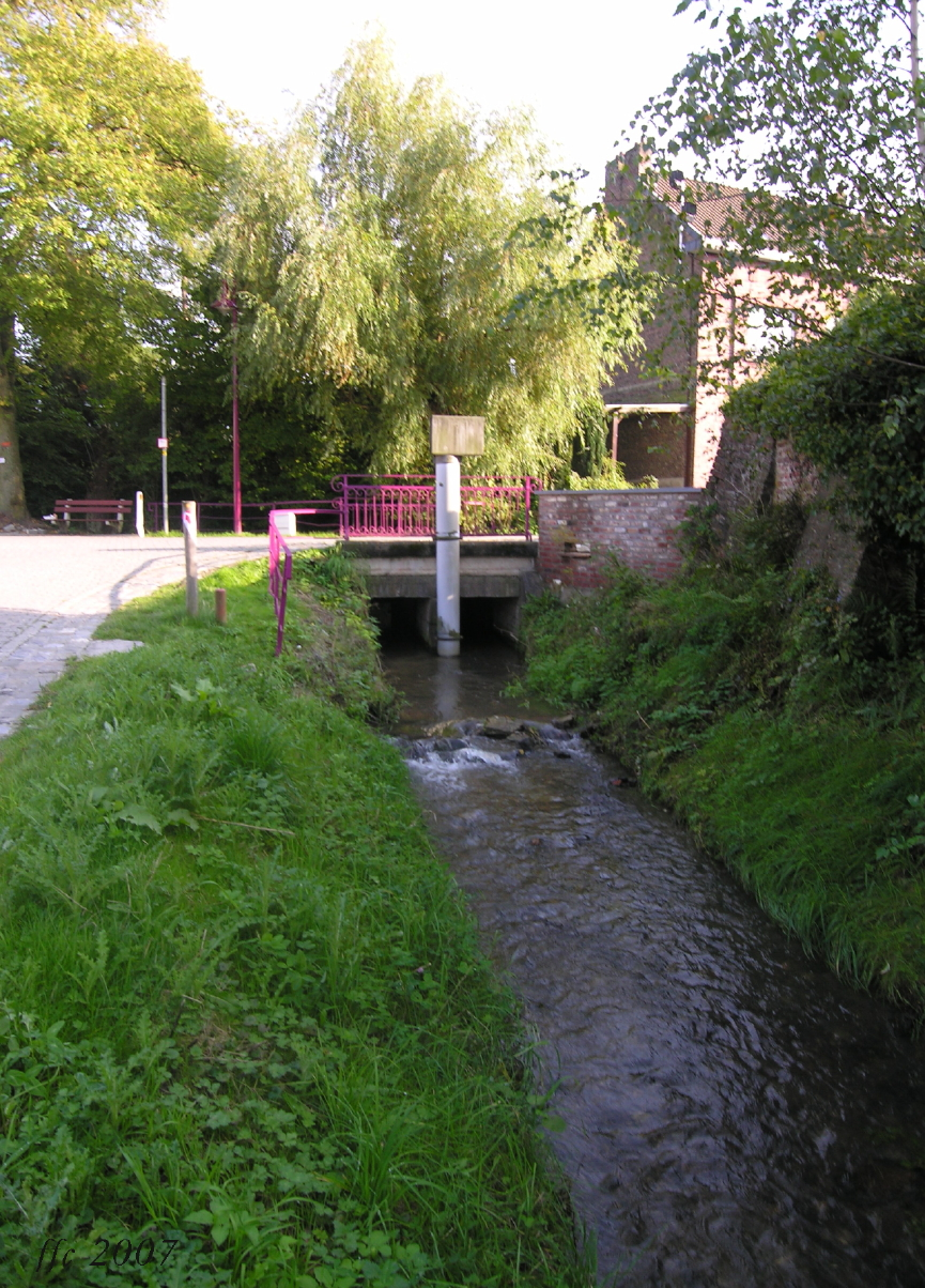 Sint-Martens-Voeren (Belgium): The river Veurs